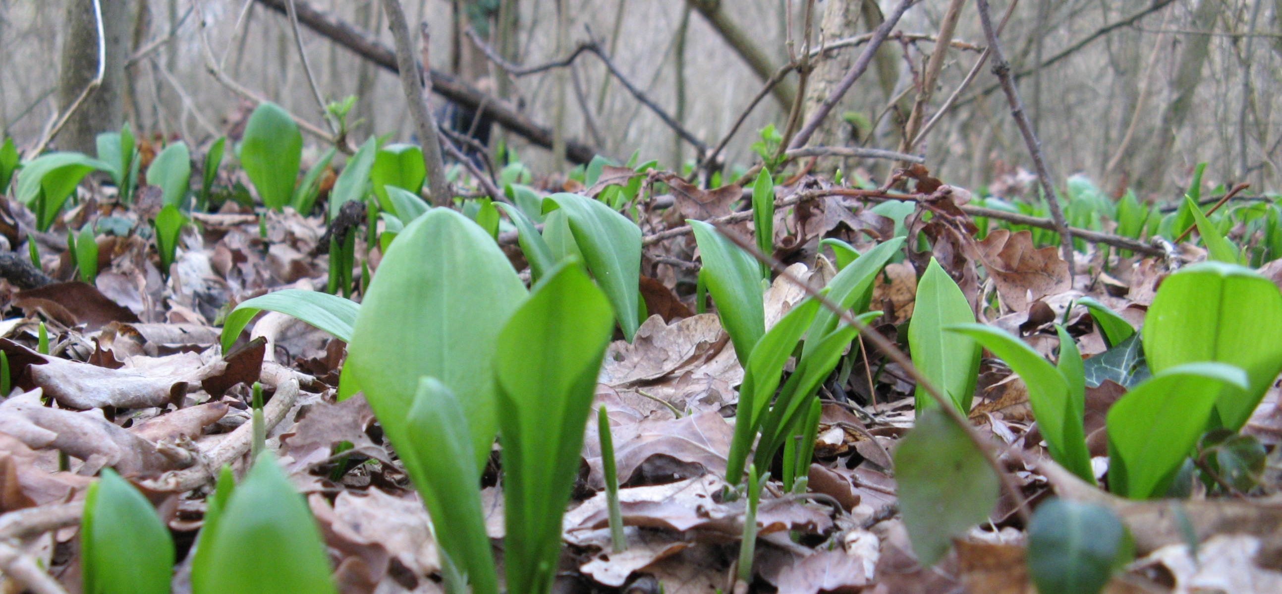 Ramsons. Young green plants in a forest near Mannheim, Germany - near the river Rhine